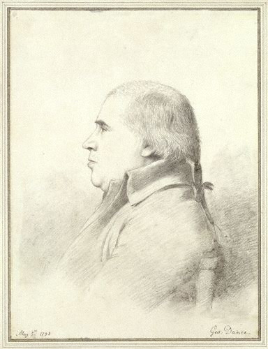 Portrait of William Seward (1747–1799).